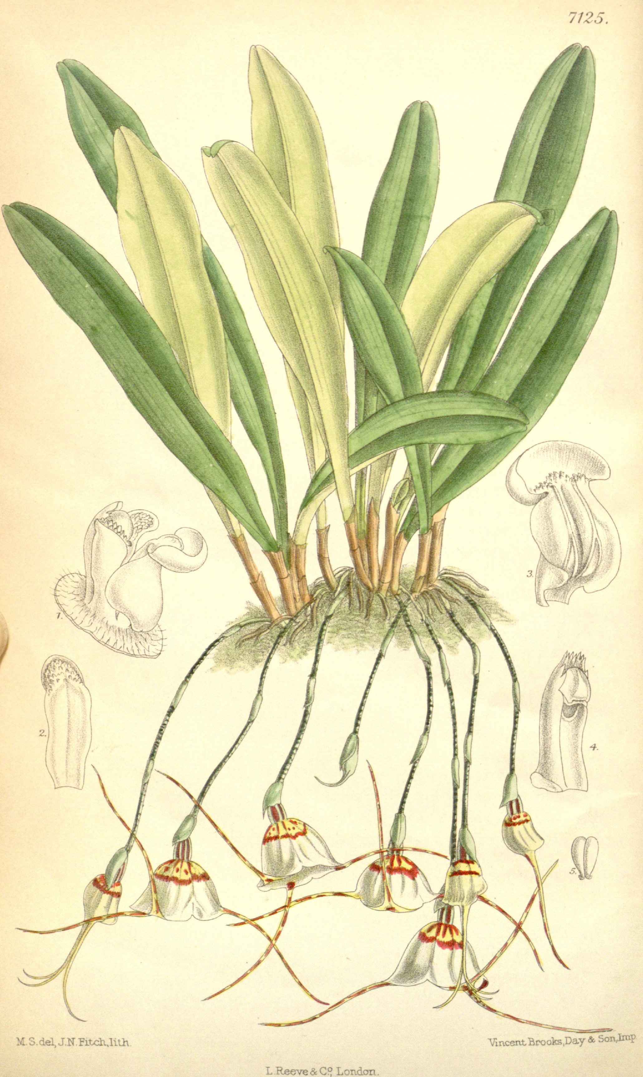 Illustration of Dracula inaequalis (as syn. Masdevallia carderi)